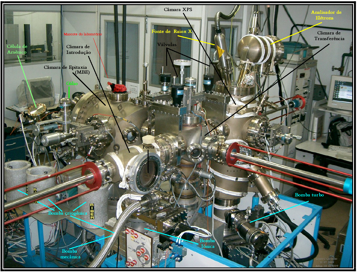 Overview of a laboratory for Molecular Beam Epitaxy: XPS analyzer installed.